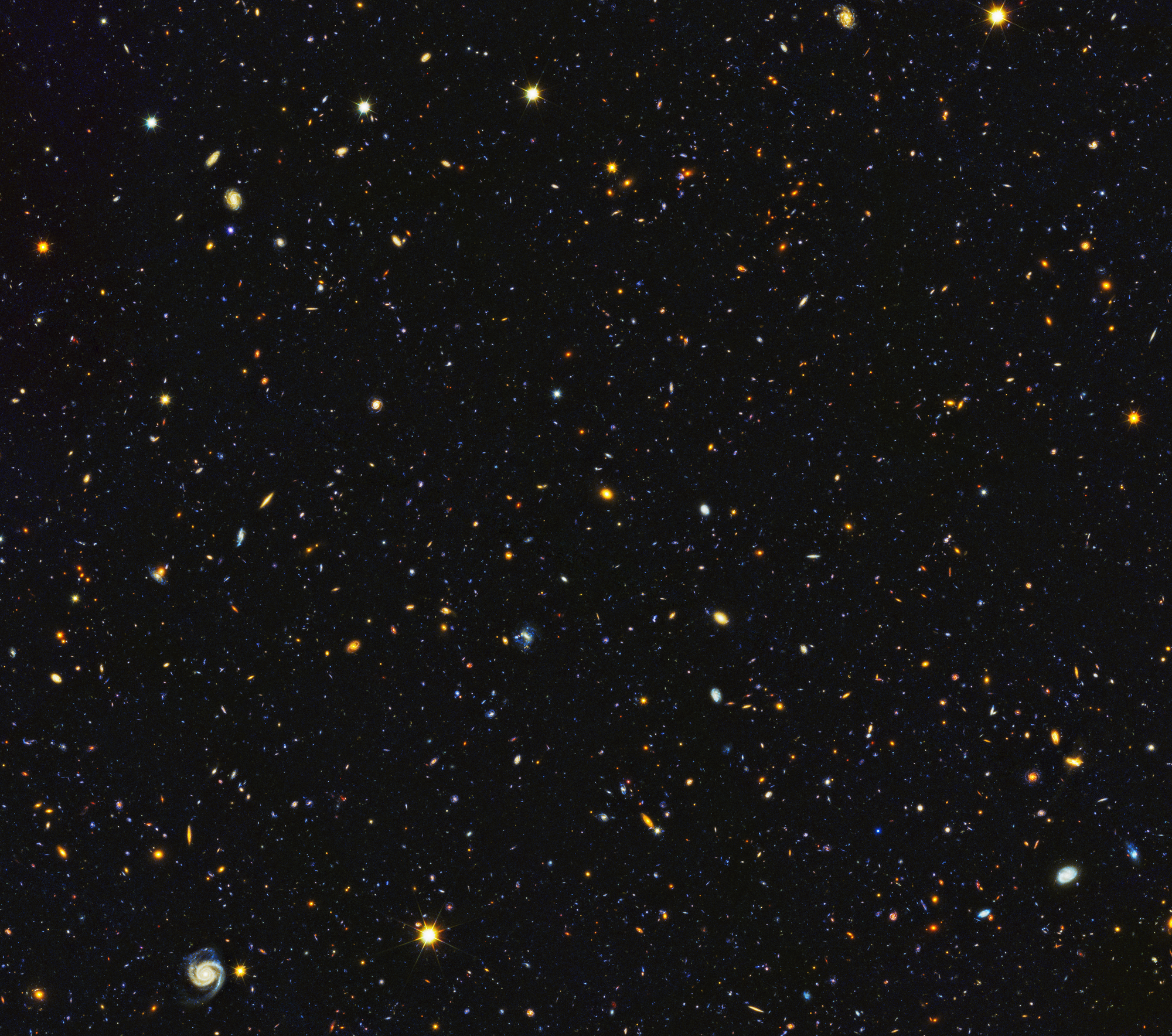 Astronomers have just assembled one of the most comprehensive portraits yet of the universe’s evolutionary history, based on a broad spectrum of observations by the Hubble Space Telescope and other space and ground-based telescopes. In particular, Hubble’s ultraviolet vision opens a new window on the evolving universe, tracking the birth of stars over the last 11 billion years back to the cosmos’ busiest star-forming period, about 3 billion years after the big bang. This photo encompasses a sea of approximately 15,000 galaxies — 12,000 of which are star-forming — widely distributed in time and space. This mosaic is 14 times the area of the Hubble Ultra Violet Ultra Deep Field released in 2014. The image straddles the gap between the very distant galaxies, which can only be viewed in infrared light, and closer galaxies, which can be seen across a broad spectrum. The light from distant star-forming regions in remote galaxies started out as ultraviolet. However, the expansion of the universe has shifted the light into infrared wavelengths. By comparing images of star formation in the distant and nearby universe, astronomers glean a better understanding of how nearby galaxies grew from small clumps of hot, young stars long ago. Because Earth’s atmosphere filters most ultraviolet light, Hubble can provide some of the most sensitive space-based ultraviolet observations possible. The program, called the Hubble Deep UV (HDUV) Legacy Survey, extends and builds on the previous Hubble multi-wavelength data in the CANDELS-Deep (Cosmic Assembly Near-infrared Deep Extragalactic Legacy Survey) fields within the central part of the GOODS (Great Observatories Origins Deep Survey) fields. This mosaic is 14 times the area of the Hubble Ultra Violet Ultra Deep Field released in 2014. This image is a portion of the GOODS-North field, which is located in the northern constellation Ursa Major.